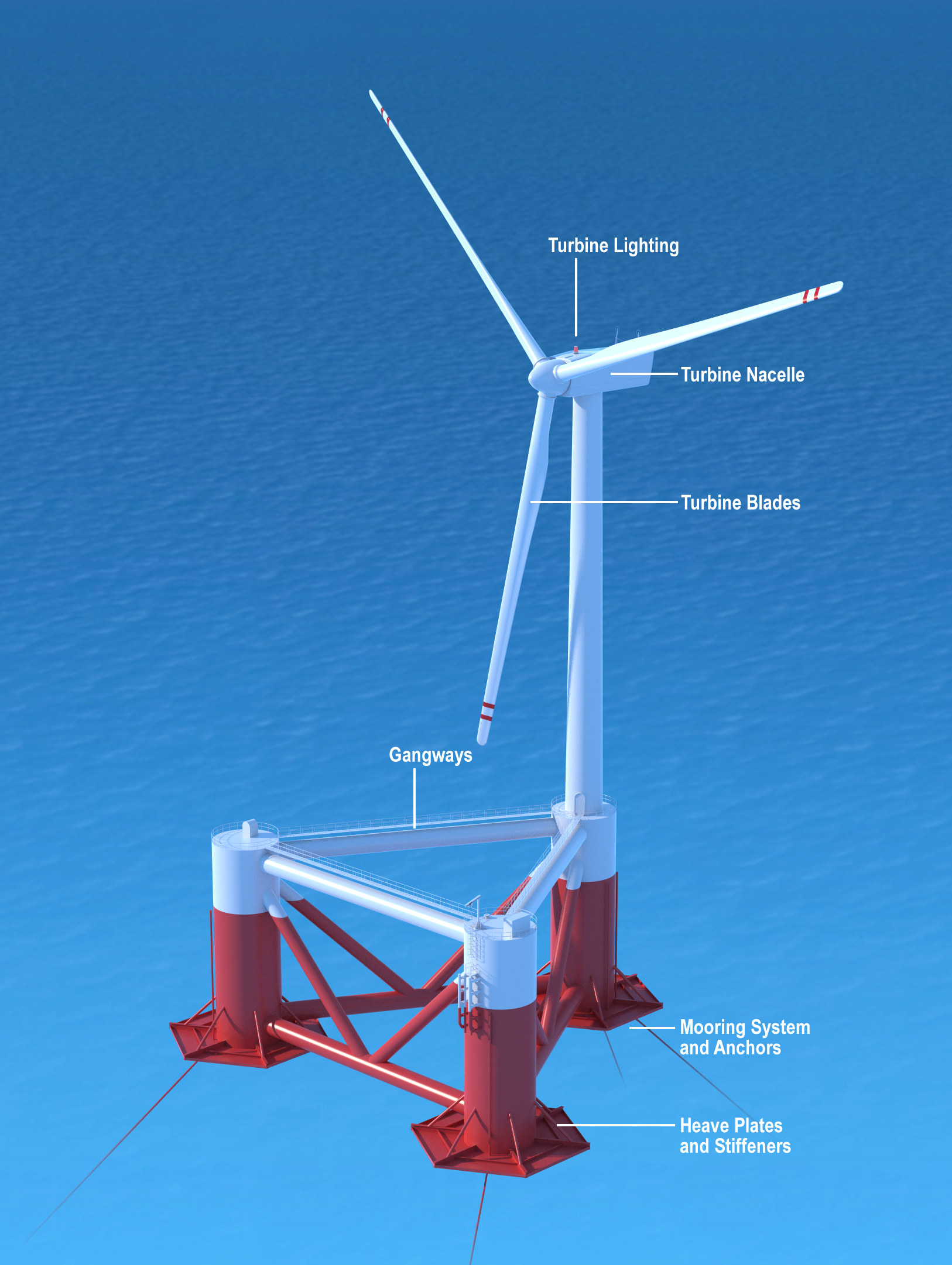 This is a CAD rendering of Principle Power's WindFloat.